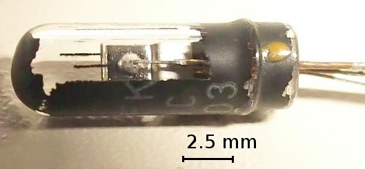 early construction of a bipolartransistor (OC603 from Telefunken/TFK). colour point is the collector terminal, germanium chip is mounted via a hole in a metal sheet (base terminal)